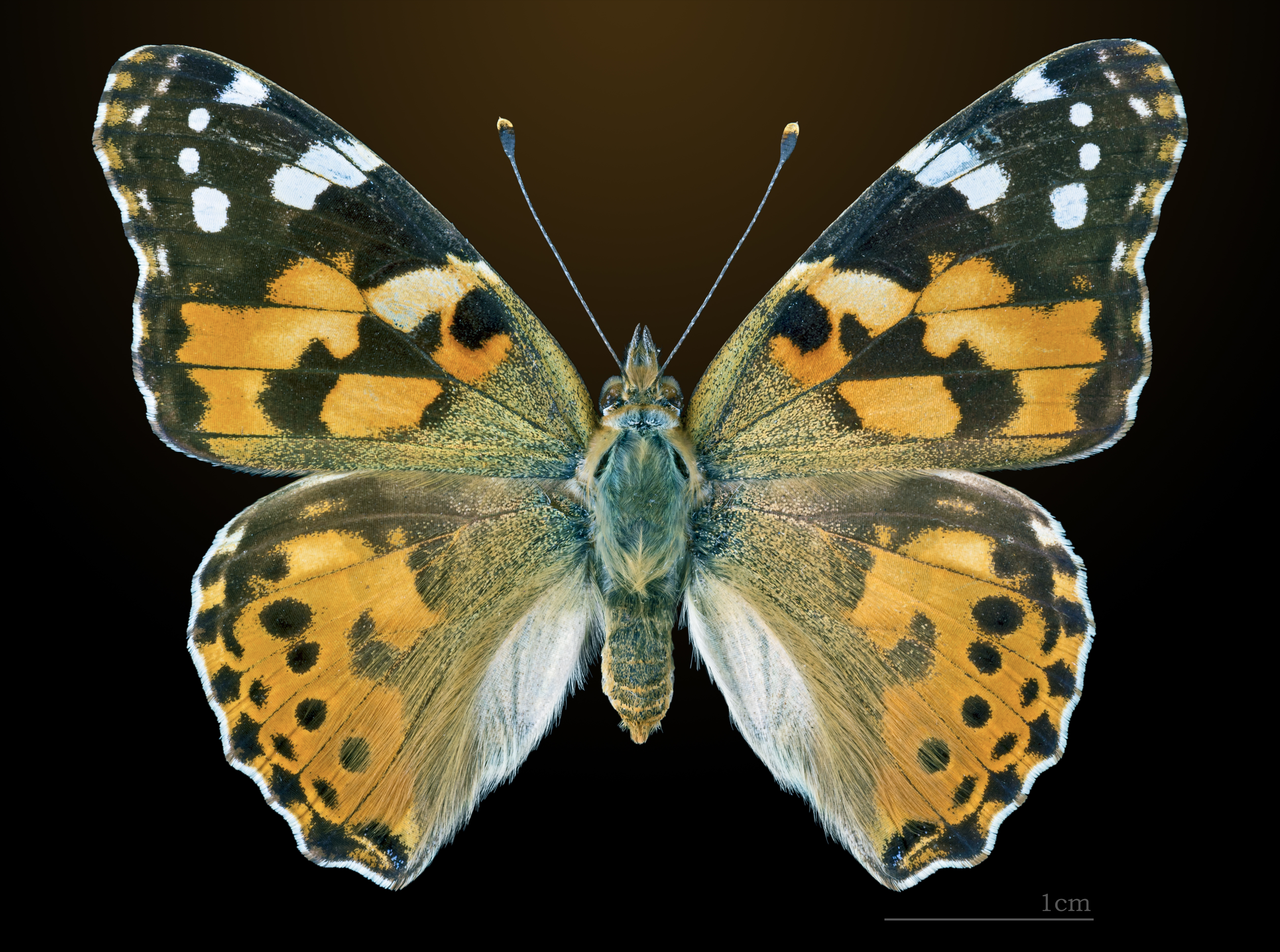 Painted Lady - Dorsal side